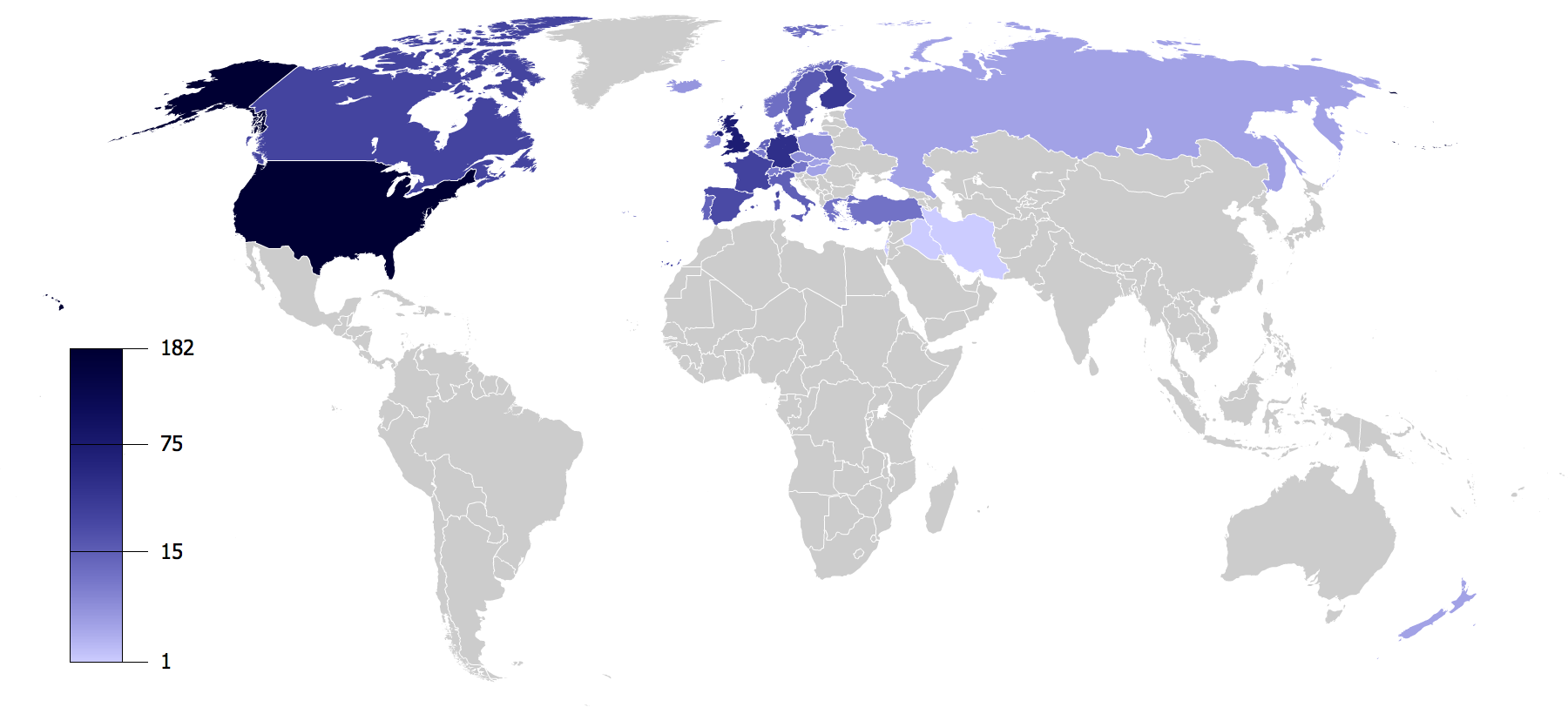 Map of countries by the number of politicians, which have attended one or more conferences organized by the Bilderberg Group.